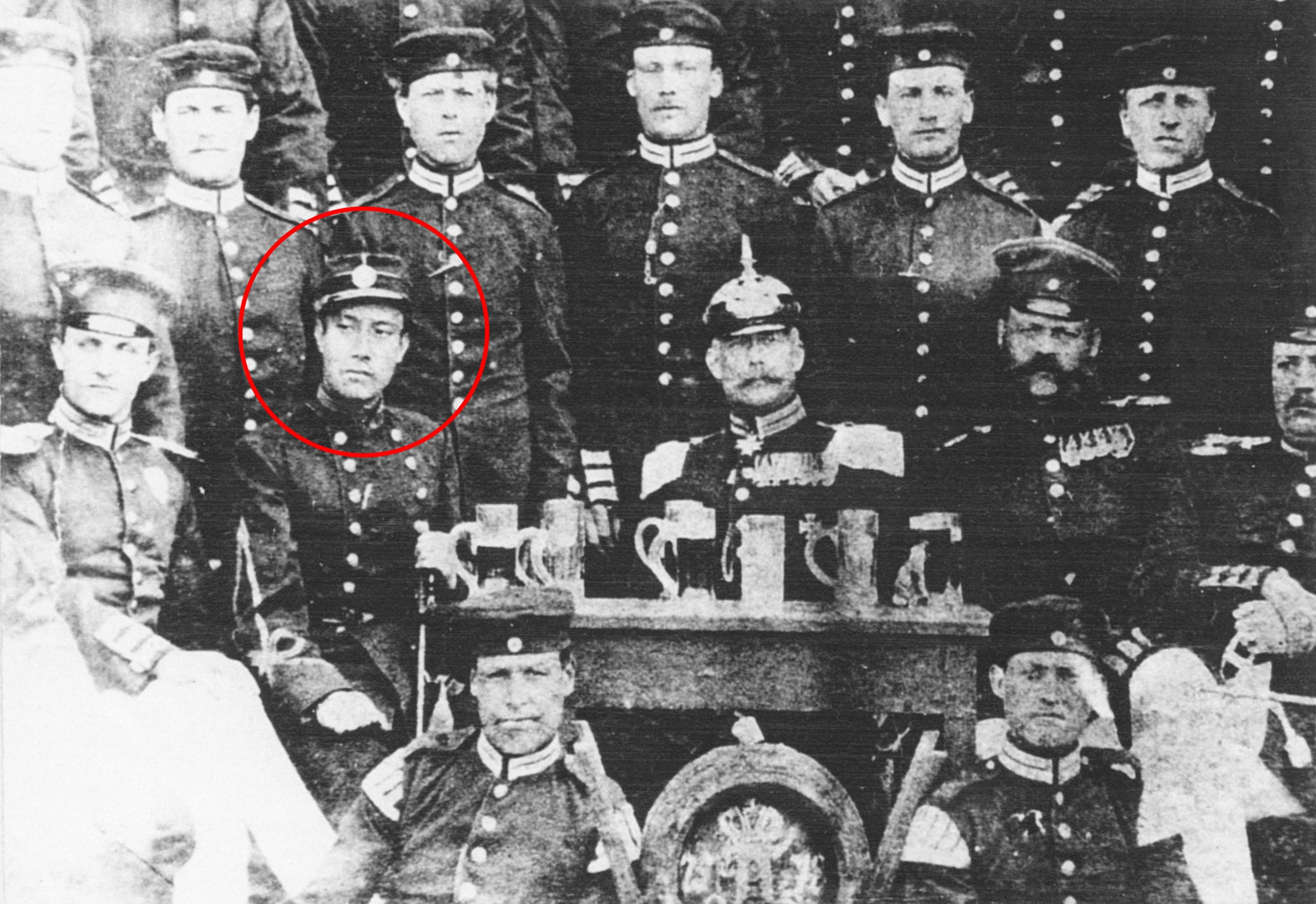 Sakai Tadazumi (not Tadaaki) at Berlin with the army